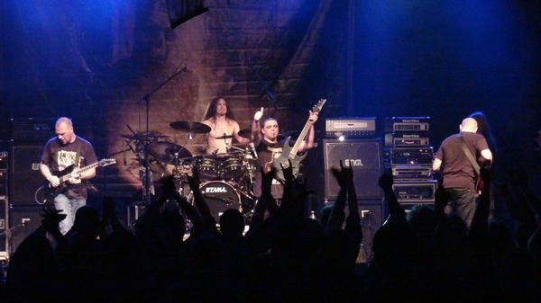 Pestilence in a tour